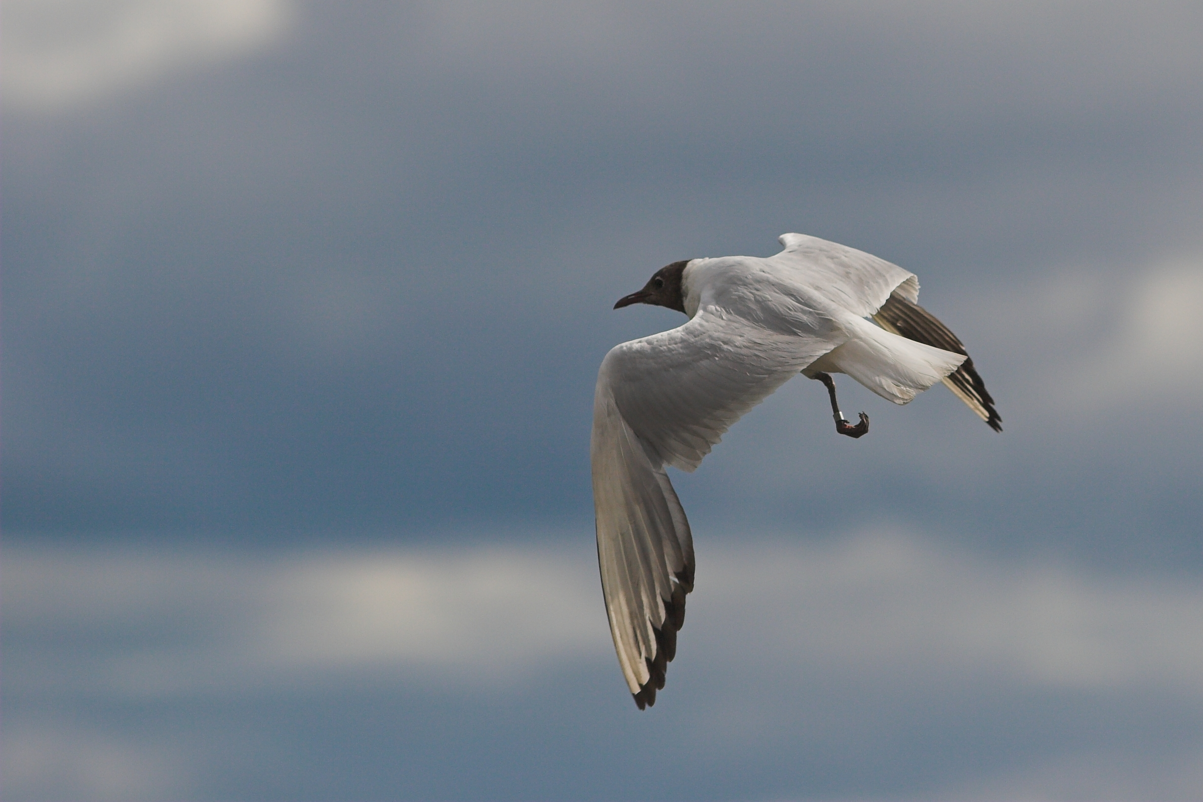 Larus ridibundus (Black-headed Gull) in flight. Notice the identification ring in bird's leg as well as rather interesting position of wings. Photo by Thermos. The wing position was later explained by MPF, who explained that the bird has an odd wing position, because it has started the post-breeding moult and has shed the innermost primary feathers, leaving the gap half-way along the wing.